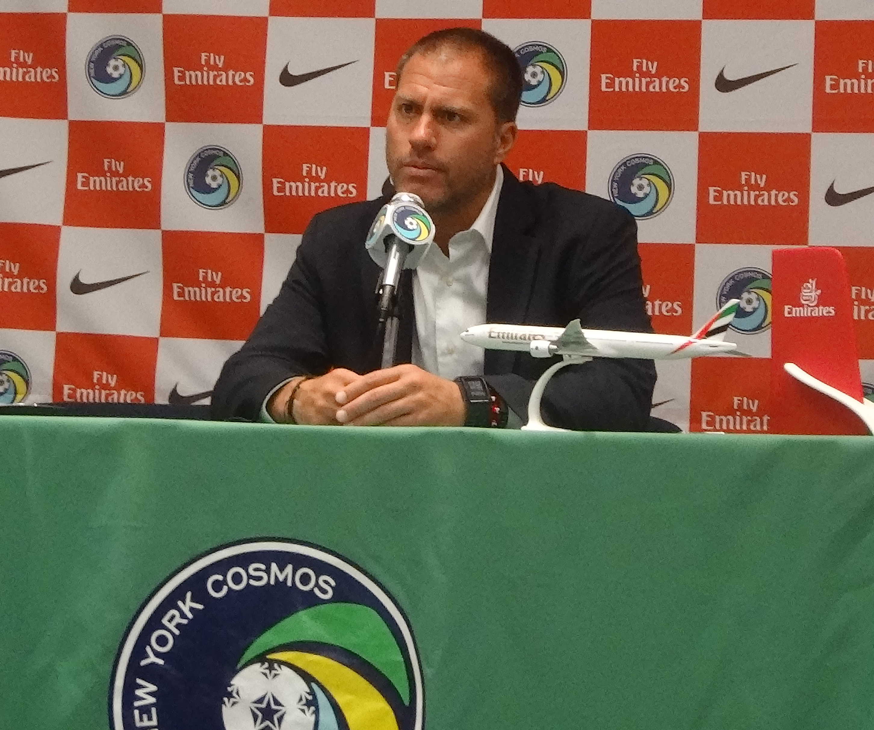 Giovanni Savarese speaks to the press following a 2014 Cosmos game.